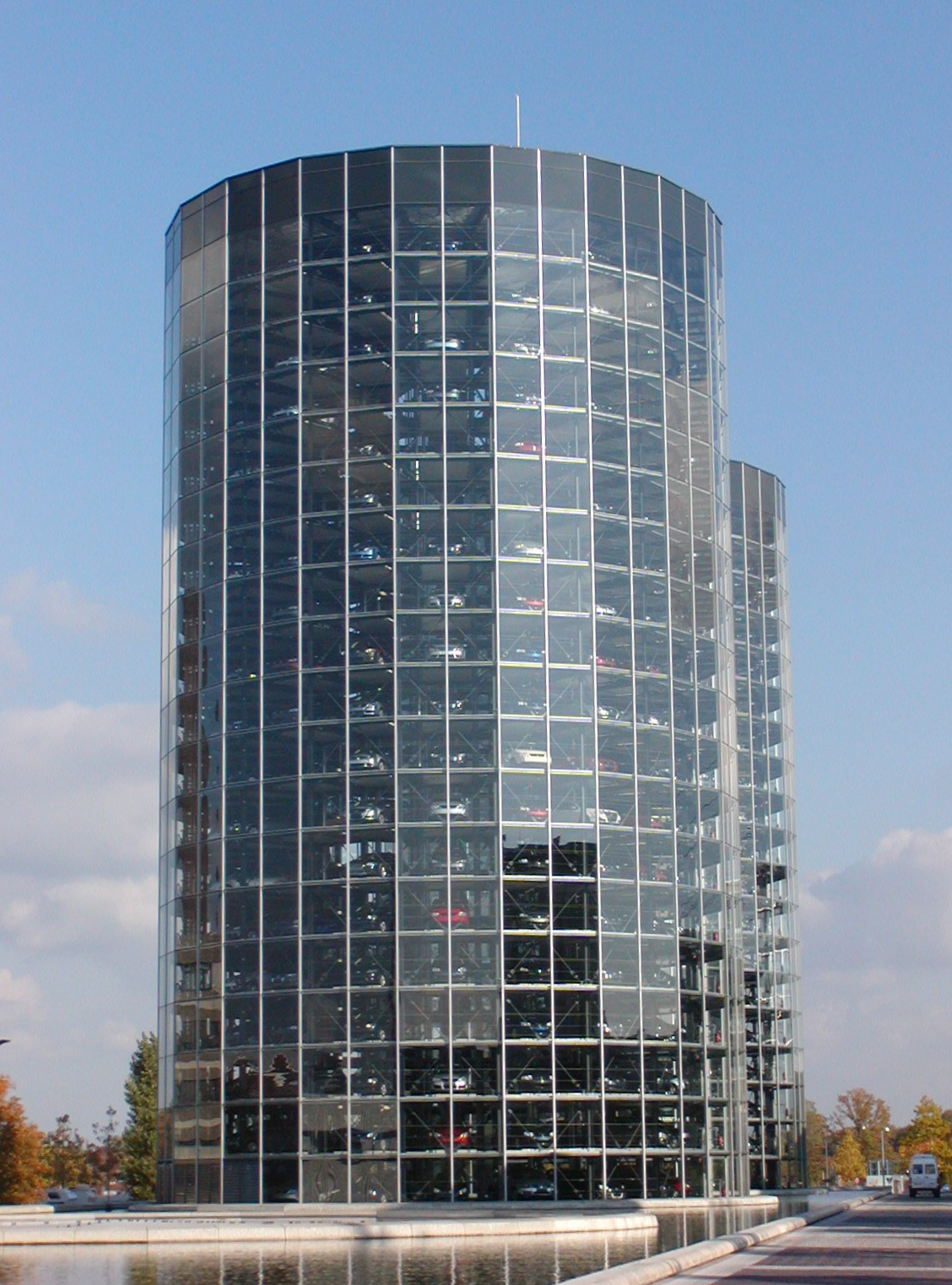 One of two 60 meter/200 ft tall glass silos used as storage for new Volkswagens at Autostadt